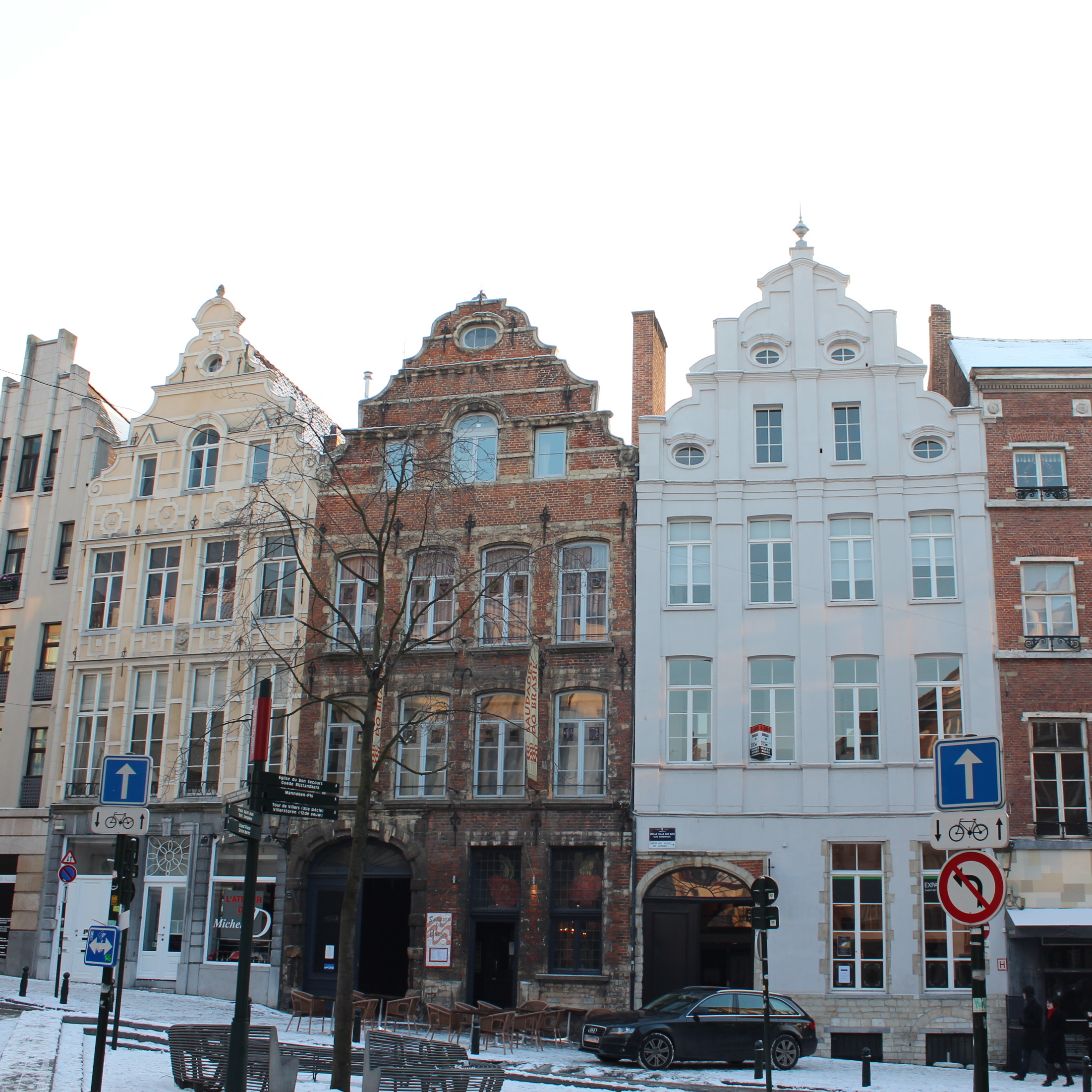 Place de la Vieille Halle aux Blés nos 31, 30 et 29.No 29 = Den Gulden Sleutel (2043-0040/0), no 30 = "De Gulde Sterre" (2043-0054/0 ), no 31 = "Le Cornet" ( 2043-0039/0)